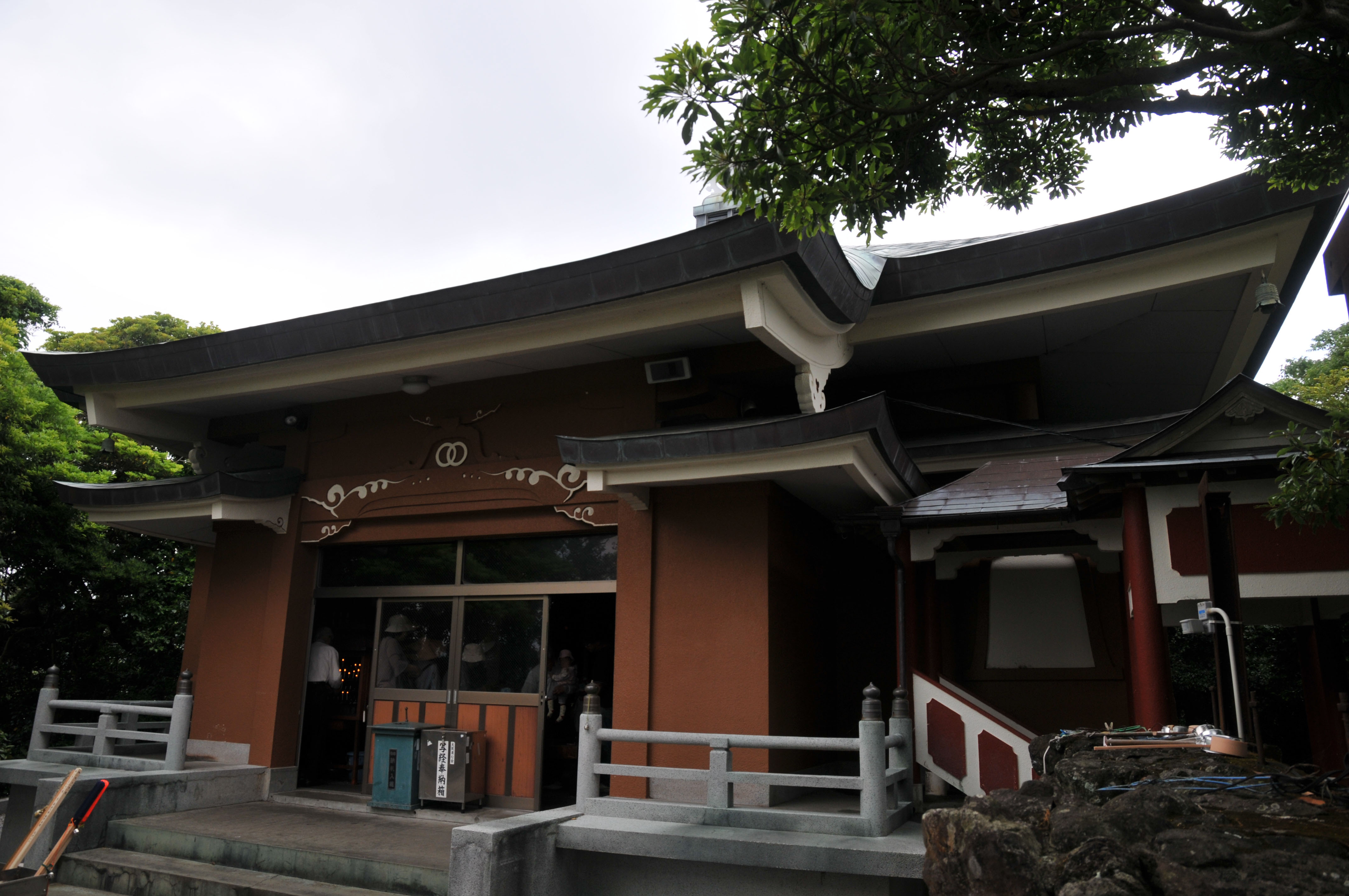 Main temple, Shinshou-ji